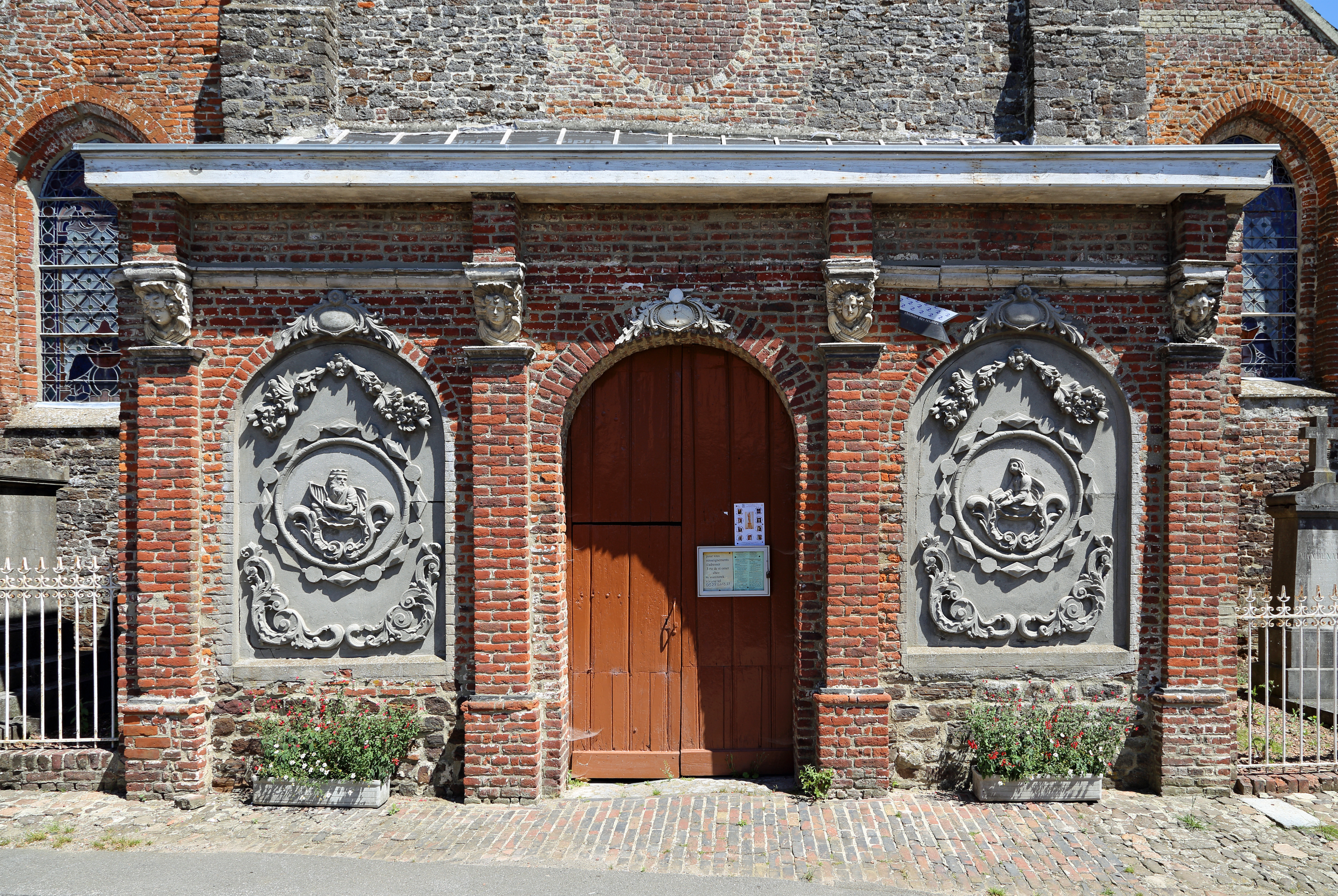 Oxelaëre (départment du Nord, France): St Martin's church - the porch